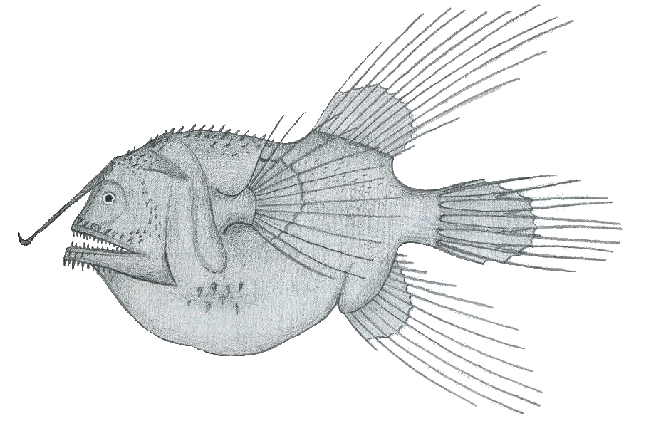 Illustrated by Ray Simpson Caulophryne jordani